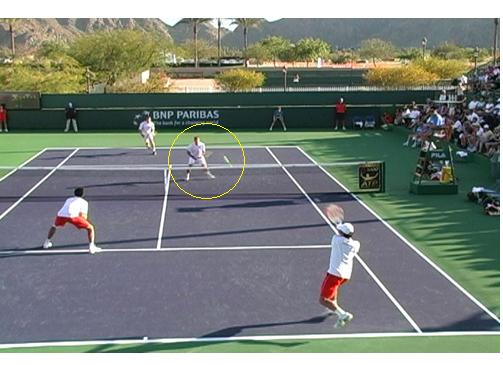 Poaching man during tennis game